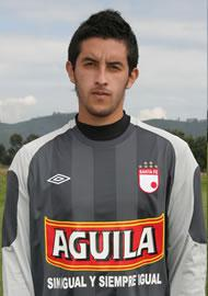 camilo is a soccer player that plays in santafe